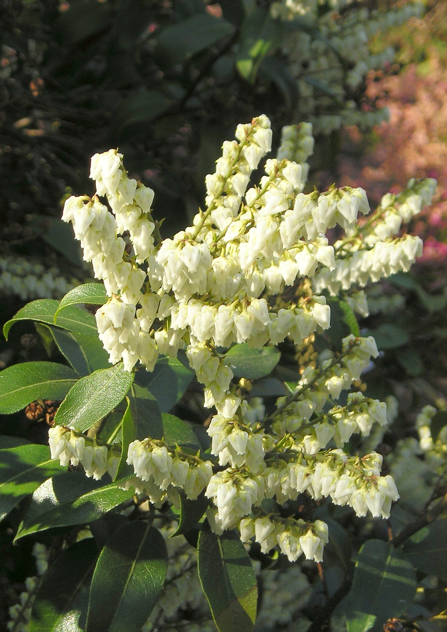 Amerikanische Lavendelheide (Pieris floribunda) Botanischer Garten TU Dresden, April 2009 Creative Commons Licence BY 2.0 Quellenangabe / Credit: Photo by Maja Dumat